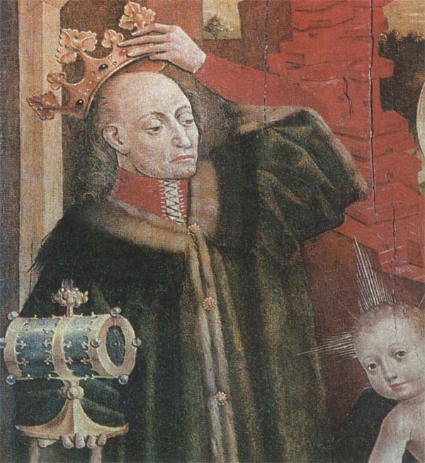 Presumably Jogaila's image from around 1475-1480.jpg